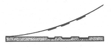 Intaglio printmaking.